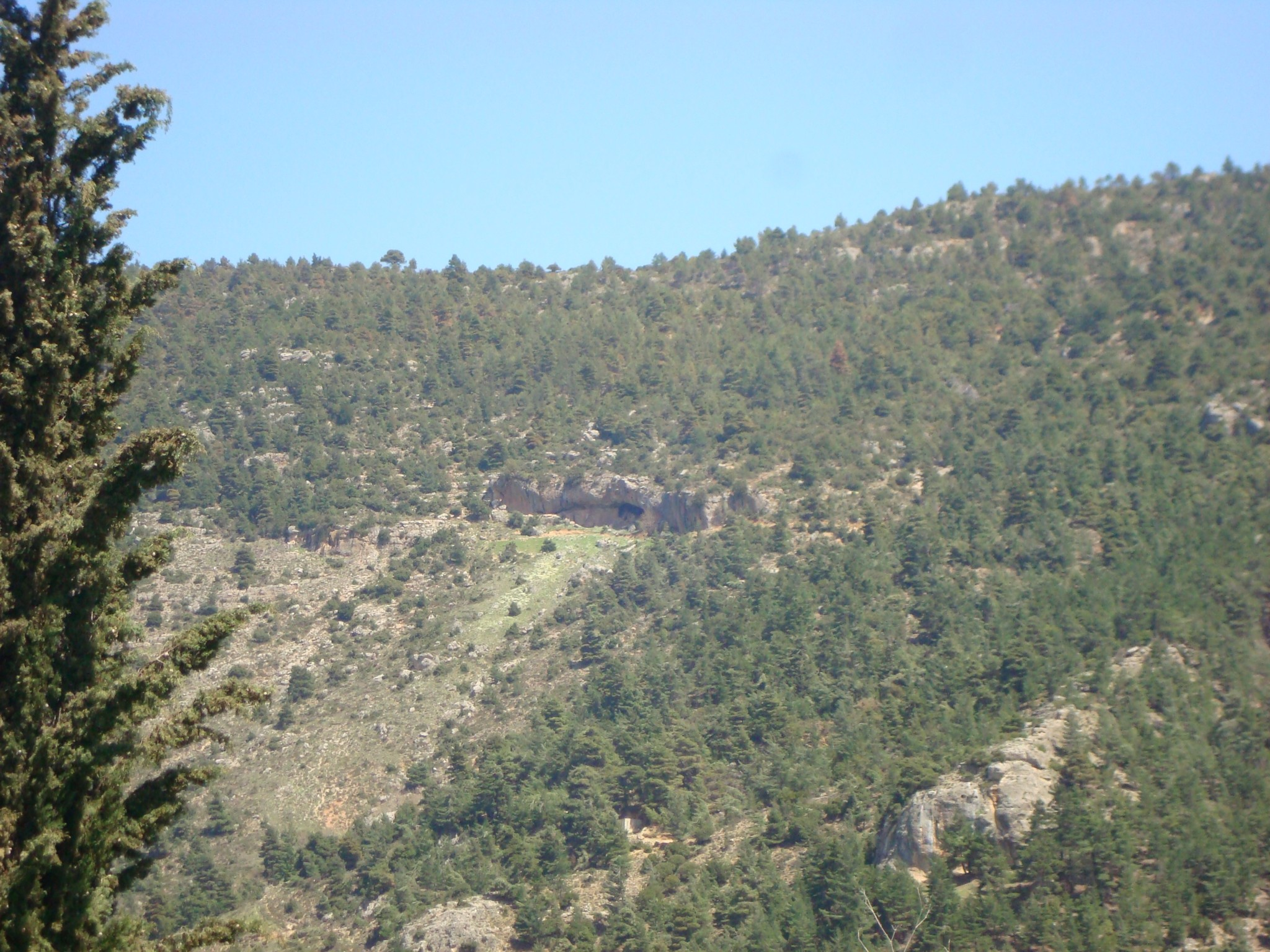 The Black Cave at Monastiri village (Vergouvitsa) at Achaea prefecture, Greece